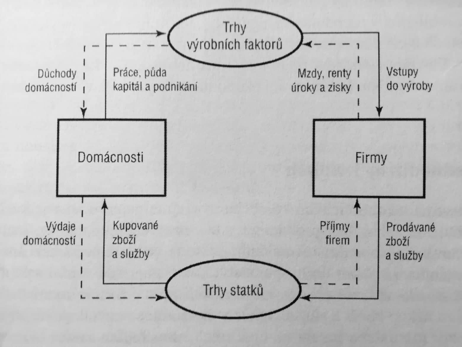 I do not know